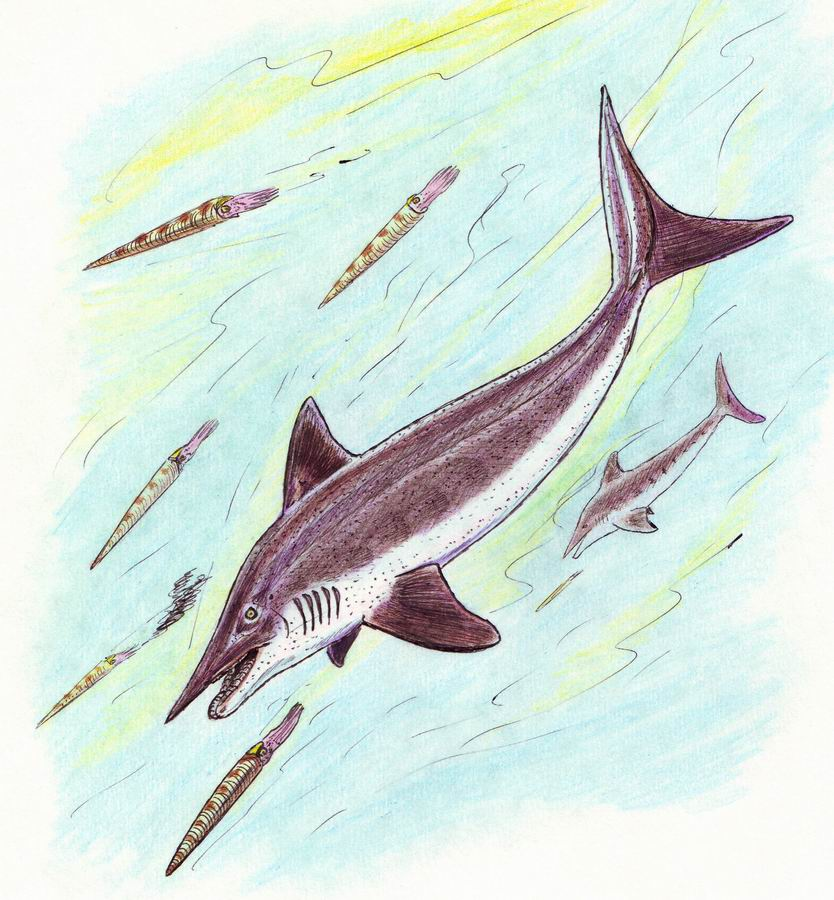 Fadenia crenulata - eugeneodontid from Permian of Greenland